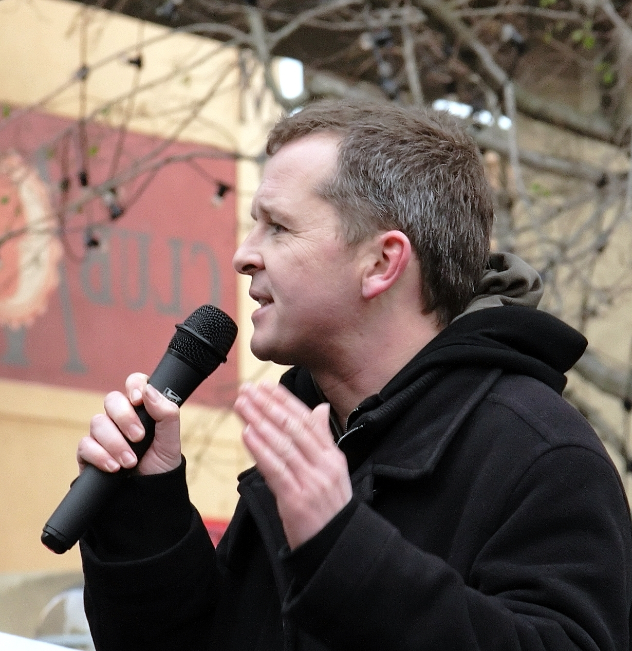 Richard Boyd Barrett in a demonstration in Dublin against Israel's military operation in Gaza